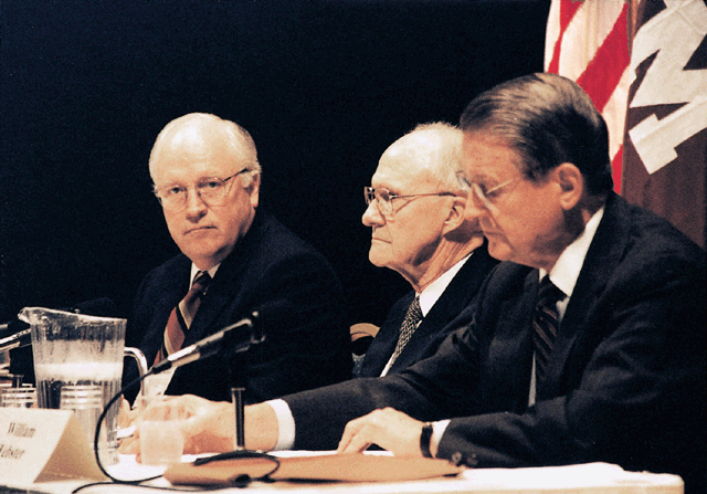 Dick Cheney, Brent Scowcroft, William Webster